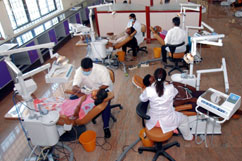 Dental students on internship